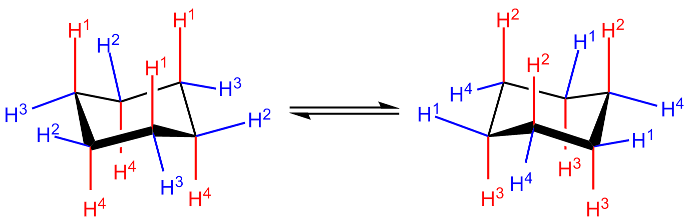 Two chair conformations of cyclohexane